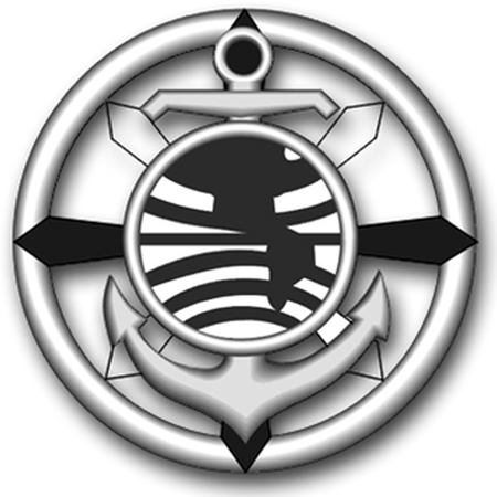 US Navy Religious/Program Specialist (RP). A rose compass, a globe, and an anchor.